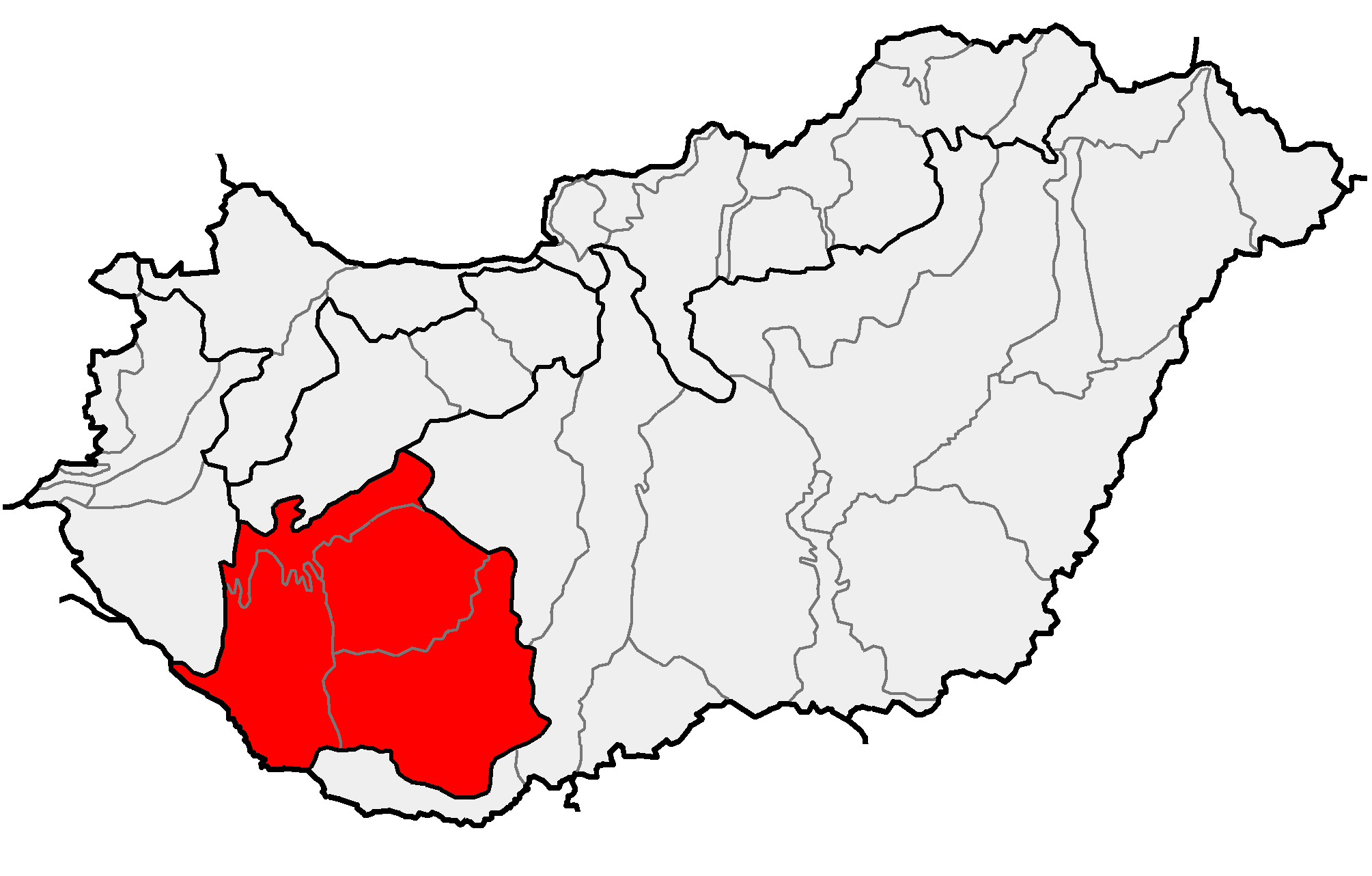 Location of geographical macroregion of Dunántúli-dombság (red) within subdivisions of Hungary.